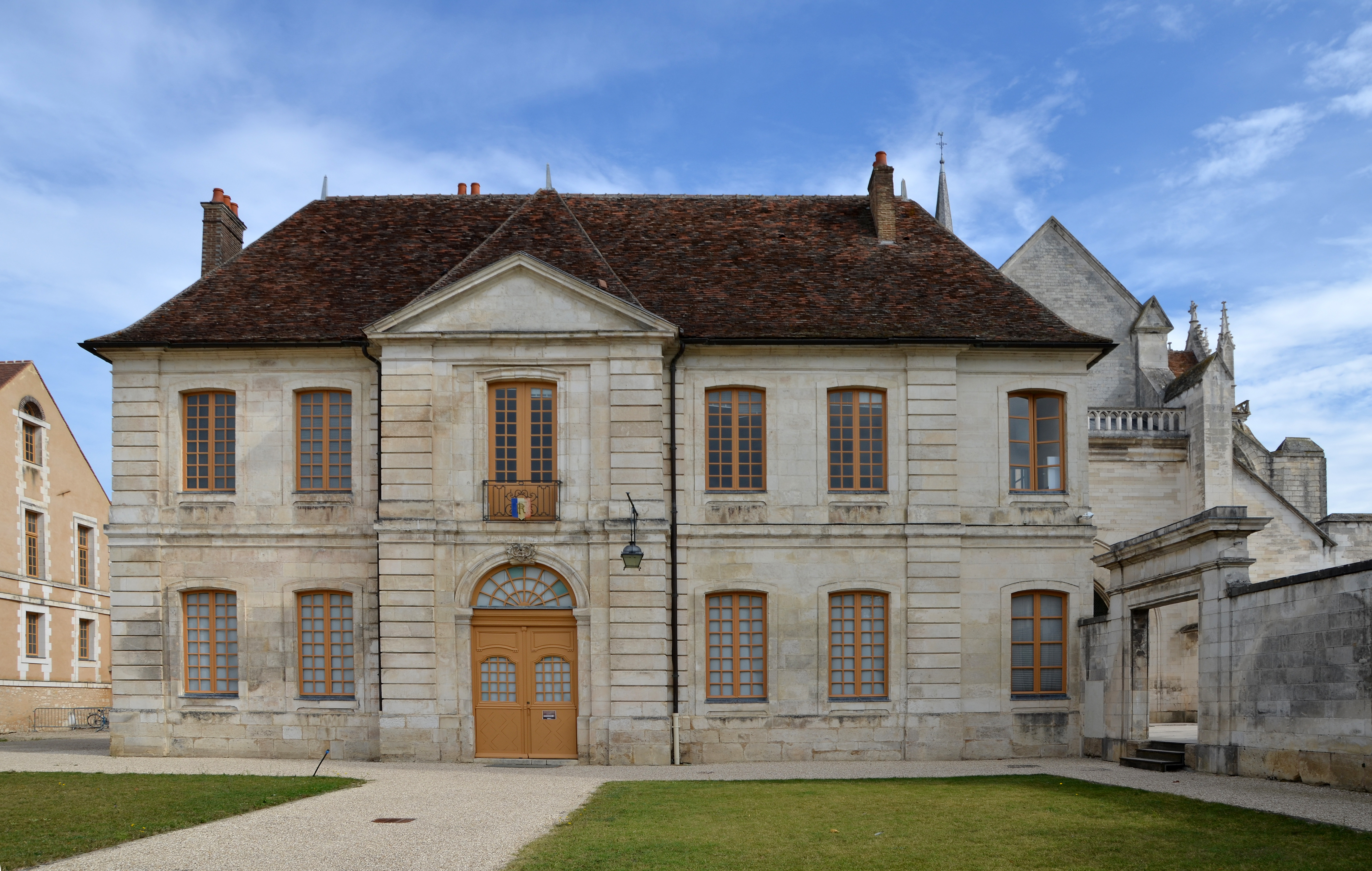 Ancient abbey of Saint-Germain in Auxerre, Yonne, Burgondy, France